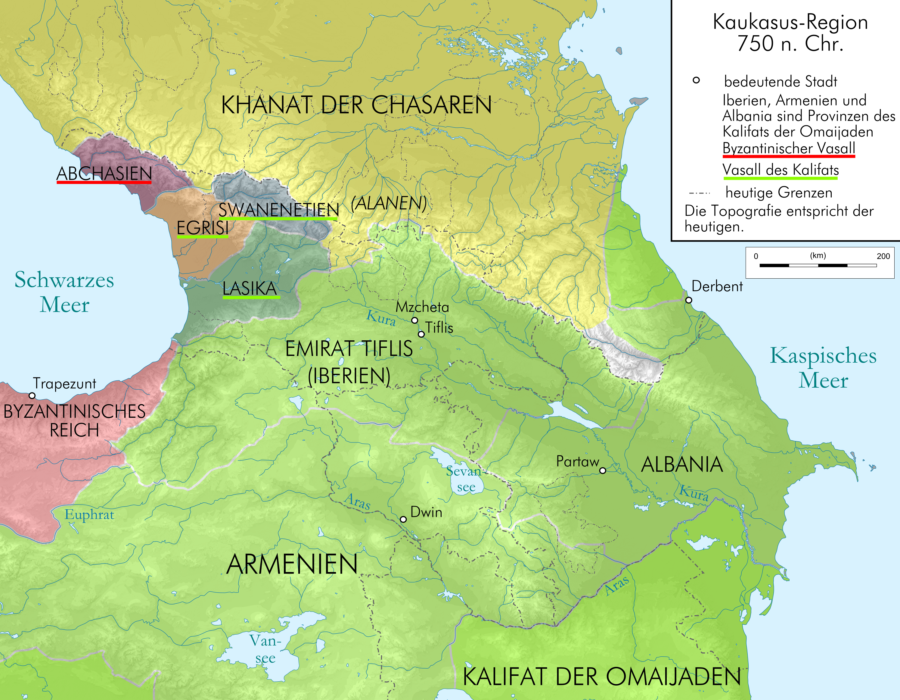 Map of Caucasus Region around 750 AD in German, sources are Putzger historischer Weltatlas Ausgabe 2005; Heinz Fähnrich: Geschichte Georgiens von den Anfängen bis zur Mongolenherrschaft. Shaker, Aachen 1993, ISBN 3-86111-683-9; File:Geom-0150bc-0600ad.jpg ; ; Atlas der Weltgeschichte. Bechtermünz Verlag, 1997